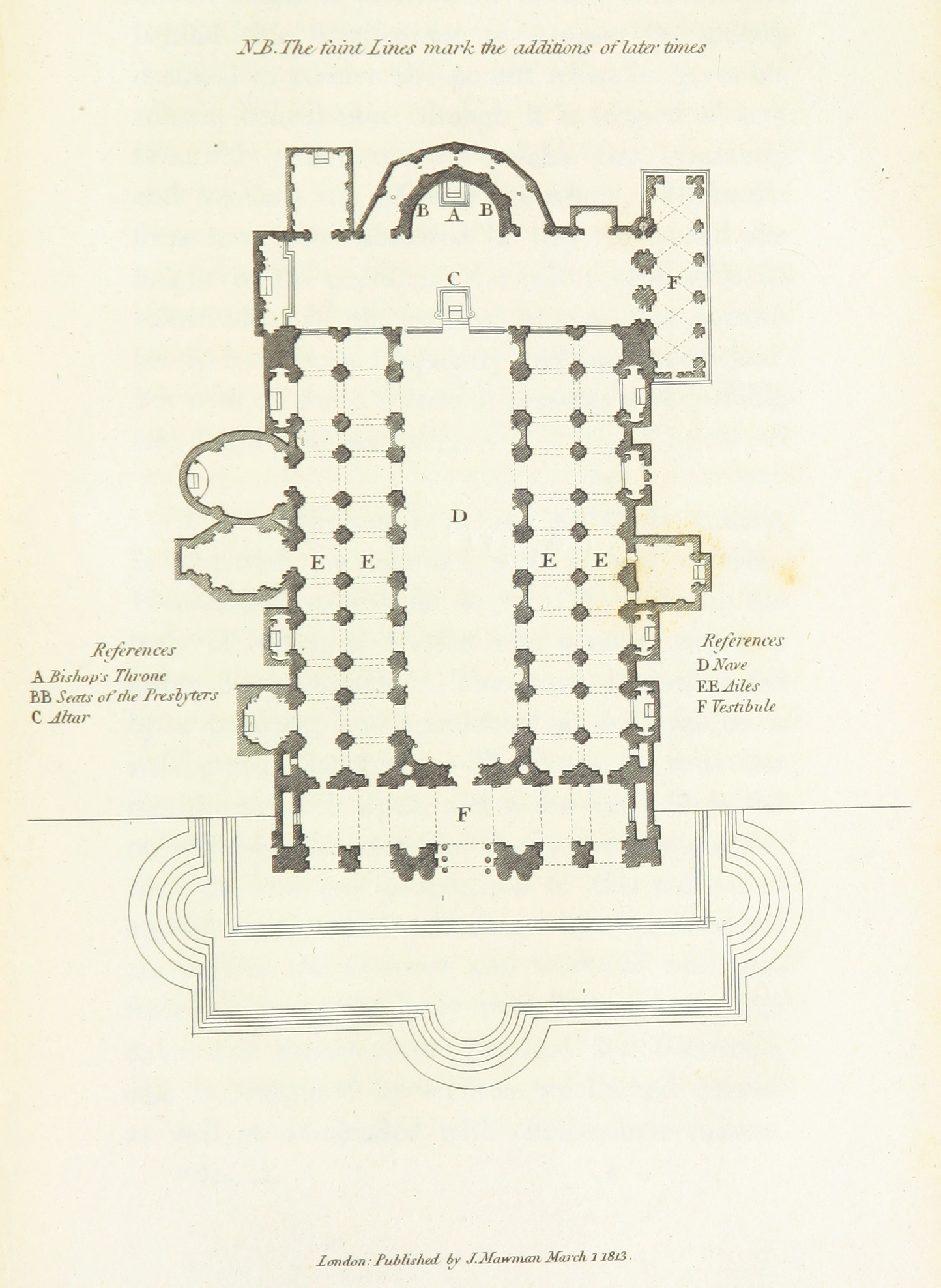 View this map on the BL Georeferencer service. Image taken from: Title: "A Classical Tour through Italy ... Fourth edition, ... illustrated with a map of Italy, plans, etc" Author: EUSTACE, John Chetwode. Shelfmark: "British Library HMNTS 10132.e.19." Volume: 02 Page: 133 Place of Publishing: London Date of Publishing: 1817 Issuance: monographic Identifier: 001175242 Explore: Find this item in the British Library catalogue, 'Explore'. Open the page in the British Library's itemViewer (page image 133) Download the PDF for this book Image found on book scan 133 (NB not a pagenumber)Download the OCR-derived text for this volume: (plain text) or (json) Click here to see all the illustrations in this book and click here to browse other illustrations published in books in the same year. Order a higher quality version from here.